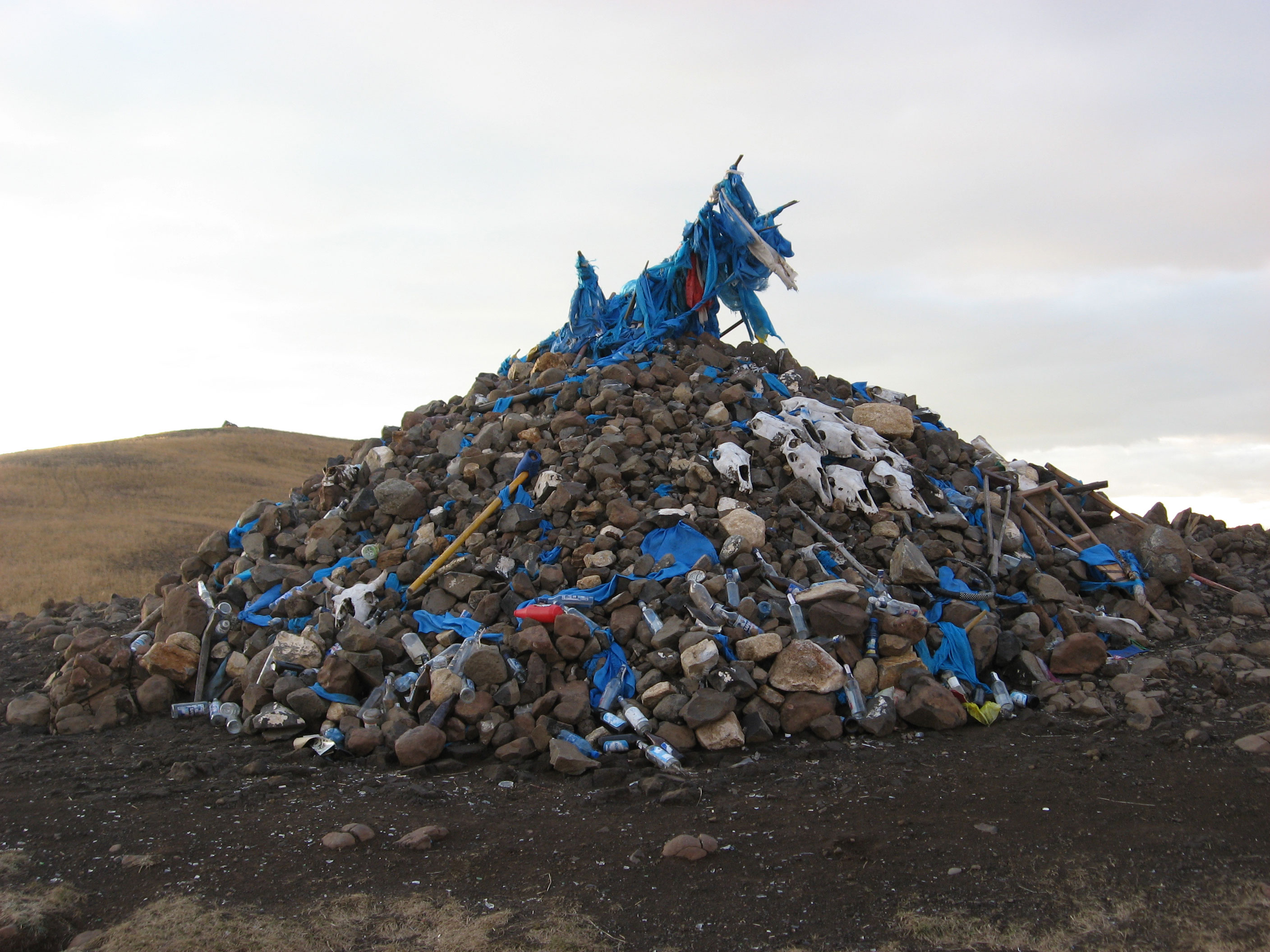 Ovoo at Hujirtyn Davaa, a mountain pass between Mörön and Erhel nuur (on the road to Hatgal). Note the horse(?) skulls, the crutches, and the vodka bottles. This ovoo is conveniently located at a major road and therefore quite big.